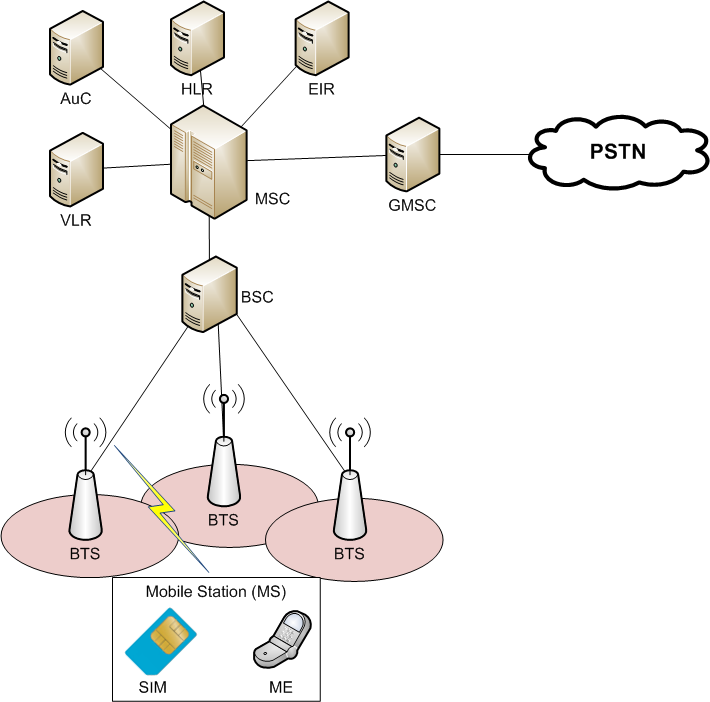 structure of gsm network